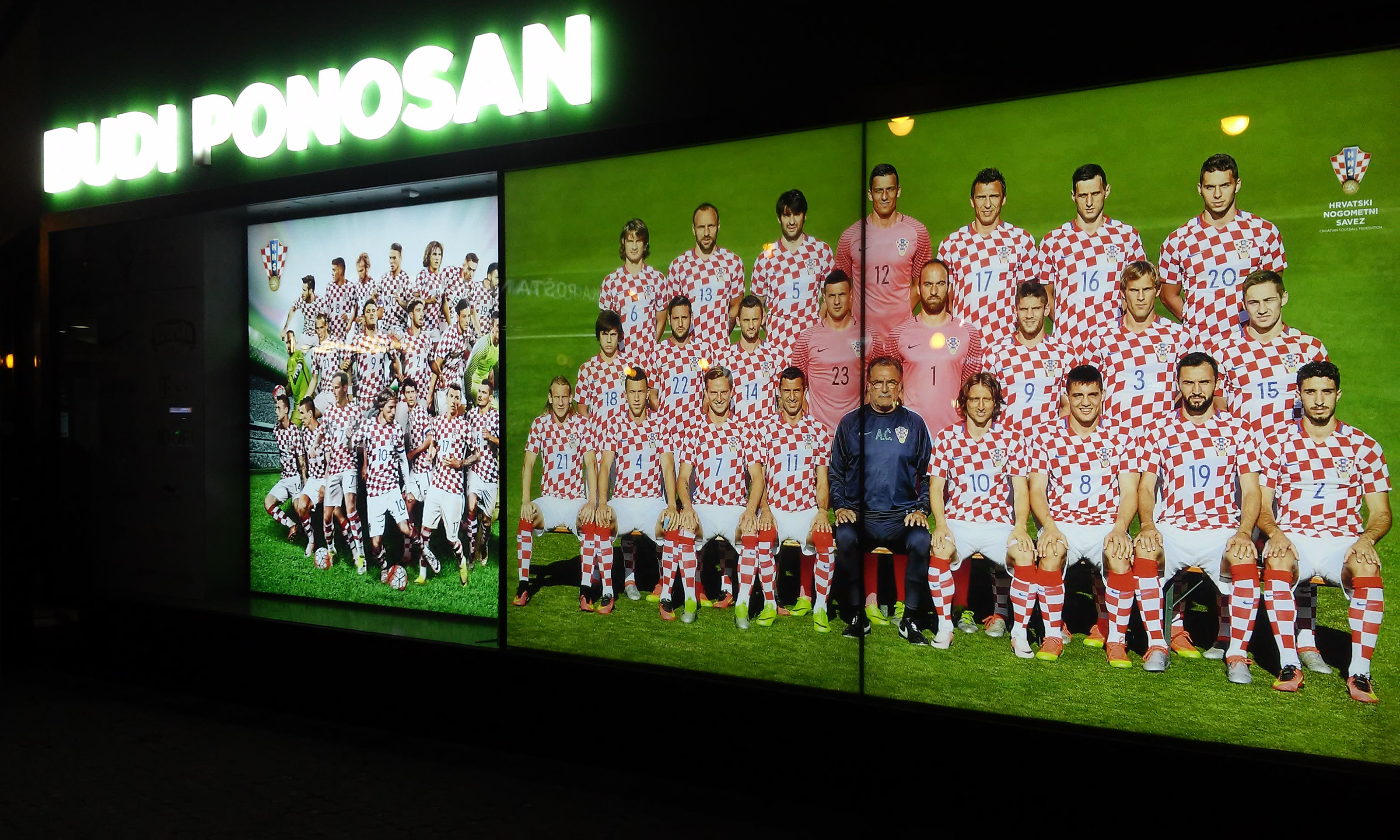 Croatia's team at the Euro 2016, Football Museum (front door), Zagreb